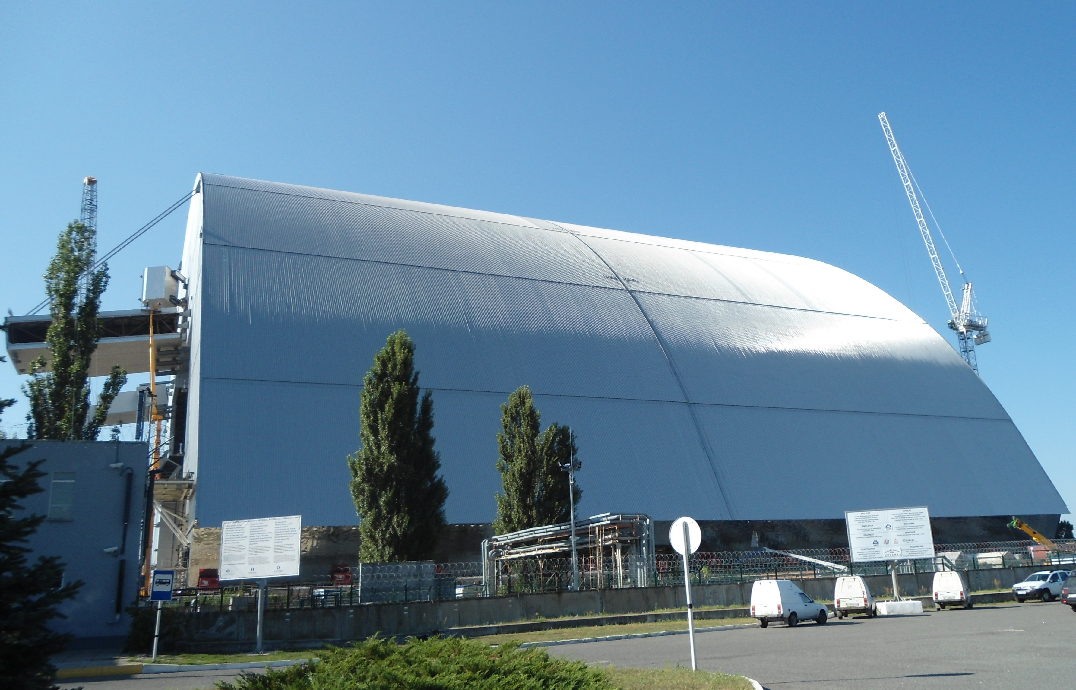 A photo of the Chernobyl New Safe Confinement taken in August 2016